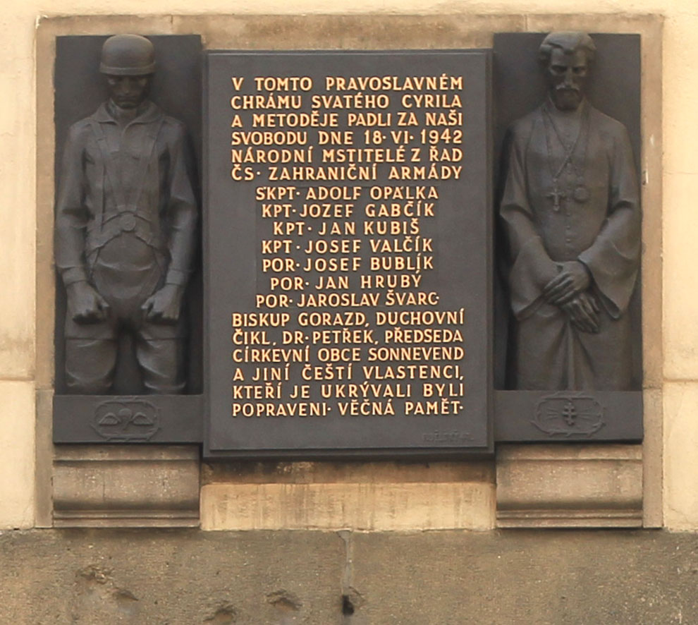 Memorial plague on St.Cyril and Method orthodox church in Resslova street in Prague, where Czech soldiers died in fight with Germans